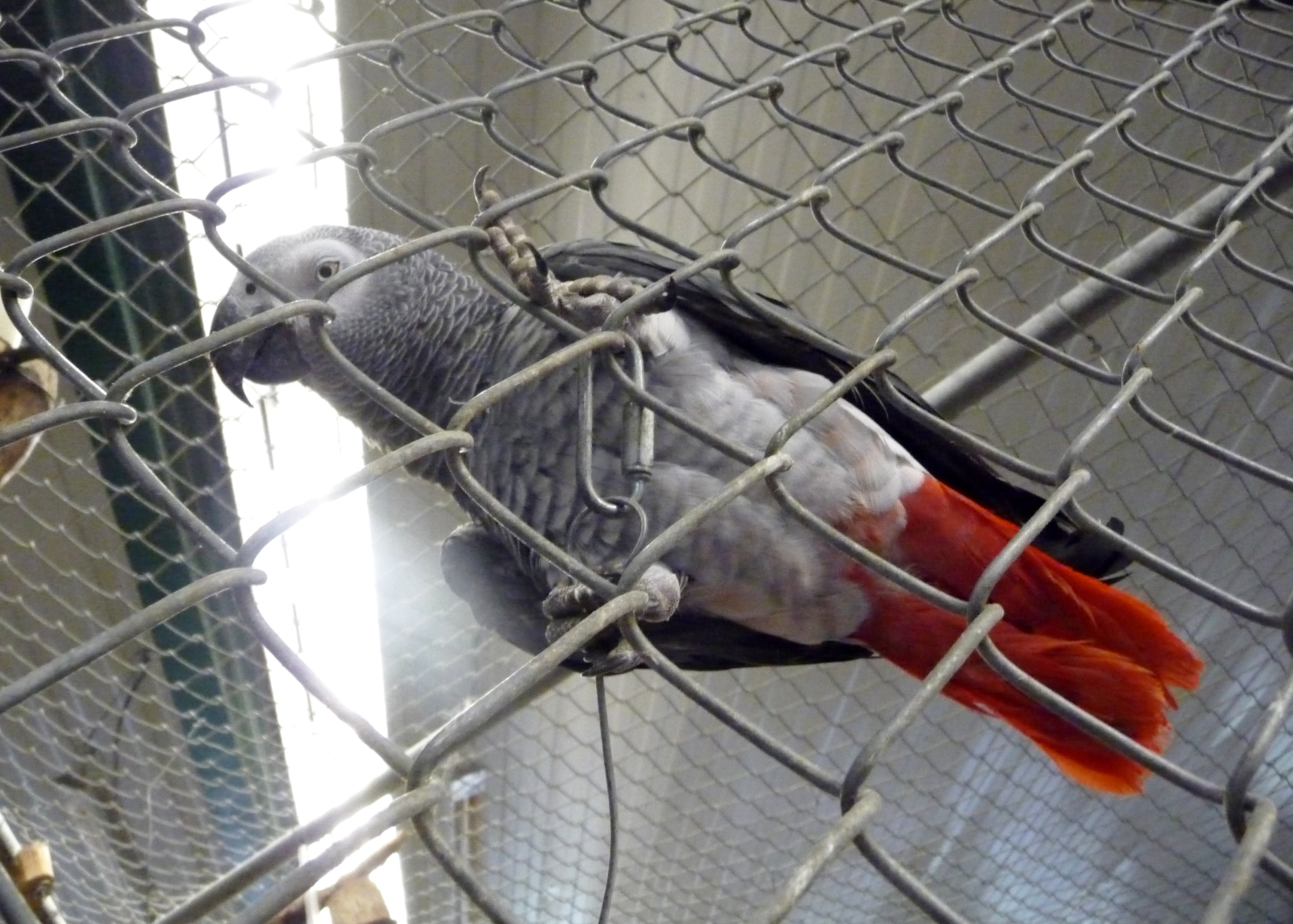 A Congo African Grey Parrot in World Parrot Refuge, Coombs, British Columbia, Canada.